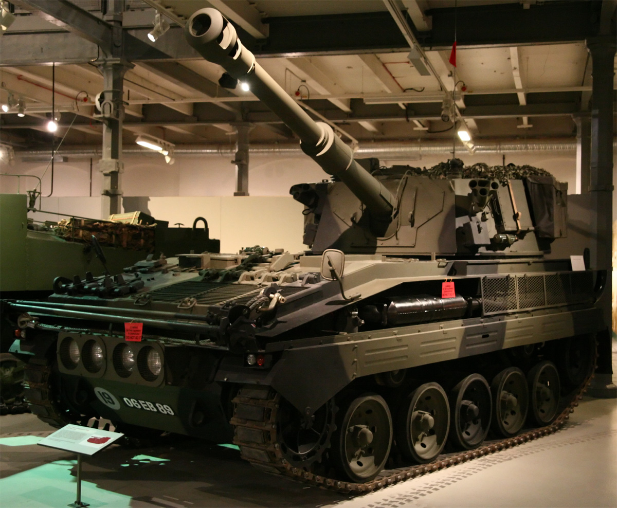 A FV433 Abbot SPG at the Firepower museum in London. Photo by Max Smith (myself) and released into the public domain.